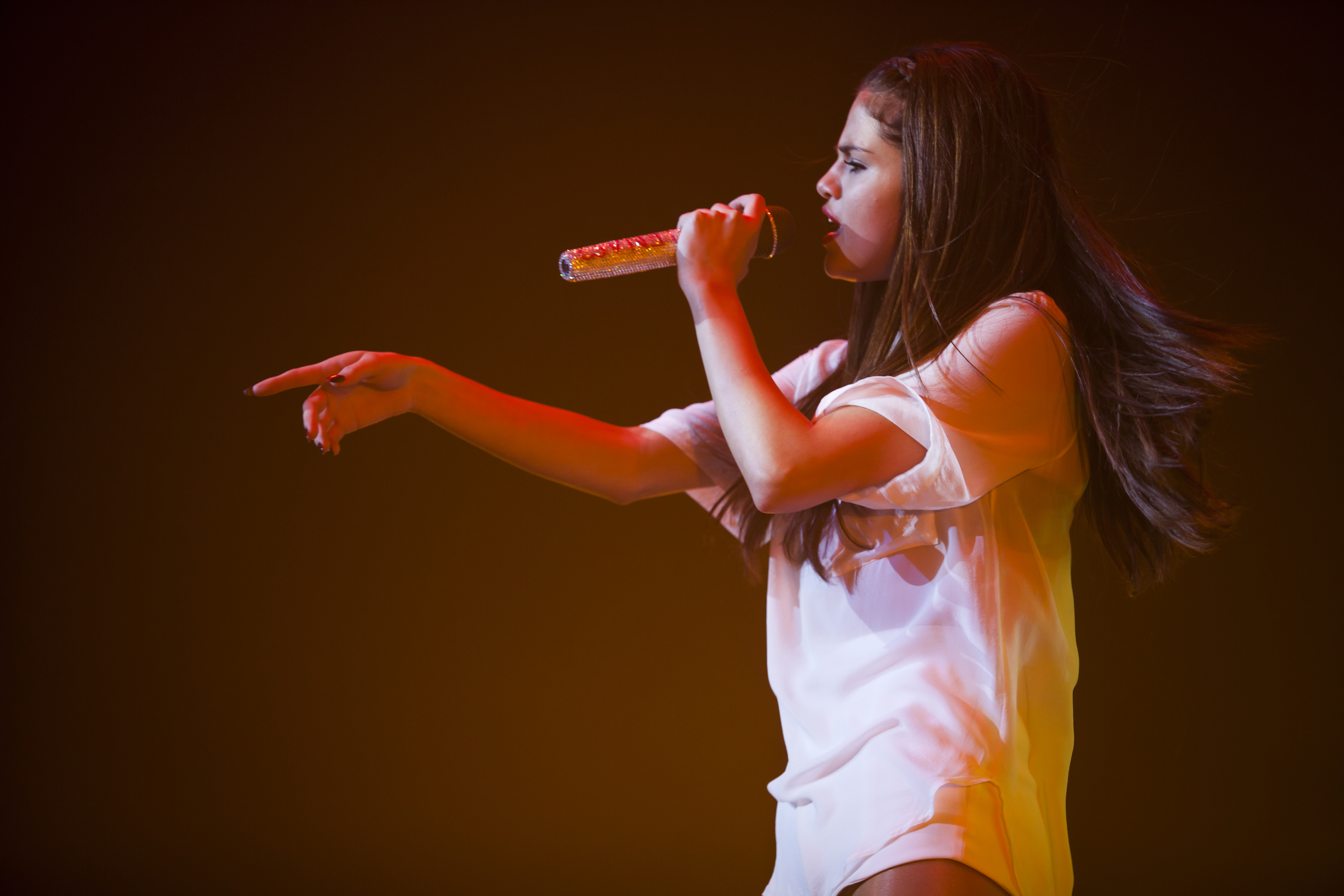 Selena Gomez during the Stars Dance Tour, Norway, september 2013.